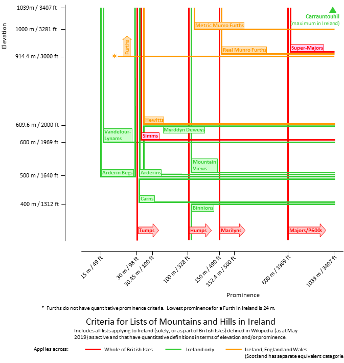 This is an Ireland-specific version of the similar diagram that shows the criteria for various lists of hills and mountains in the whole British Isles.